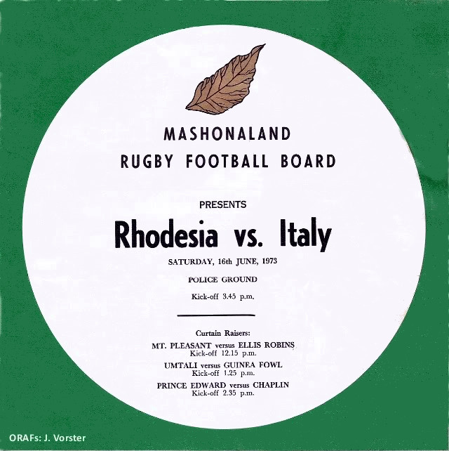 Cover of the rugby union match Rhodesia vs Italy's programme